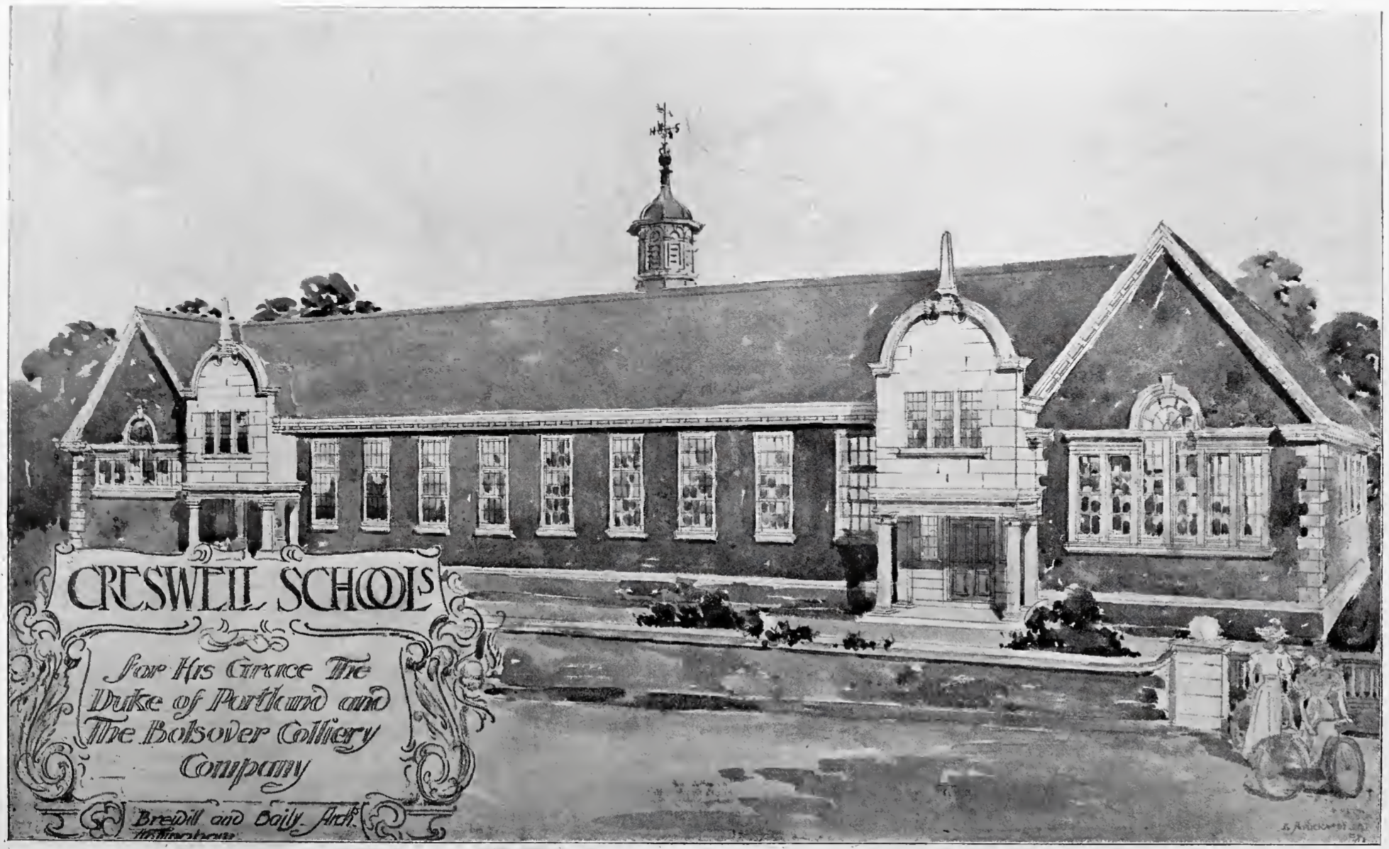 Cresswell Schools, Creswell, Derbyshire - drawing - Brewill and Baily architects